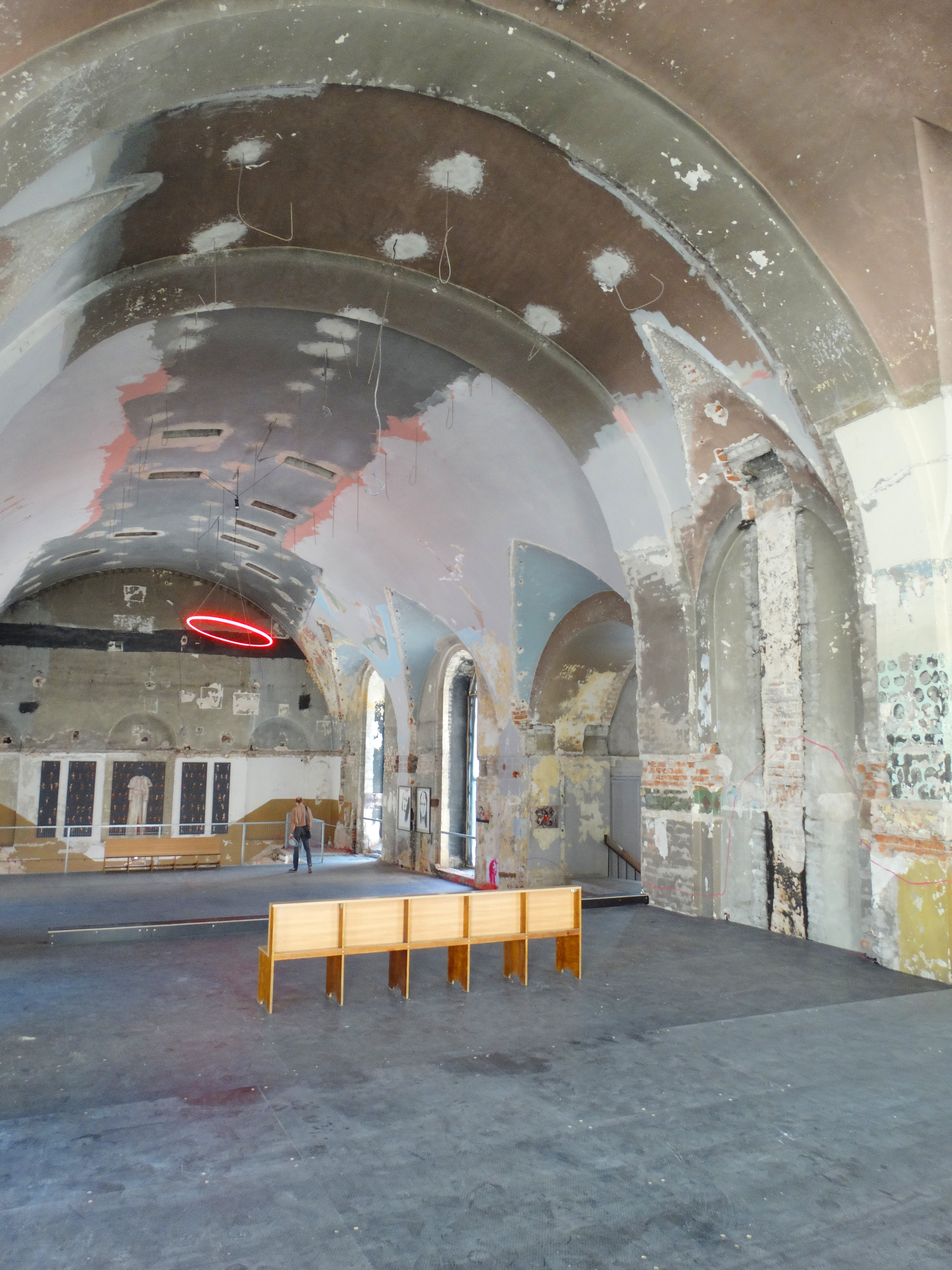 Blessed Sacrament Catholic Church (formerly Corpus Christi Church), Kaunas, Lithuania